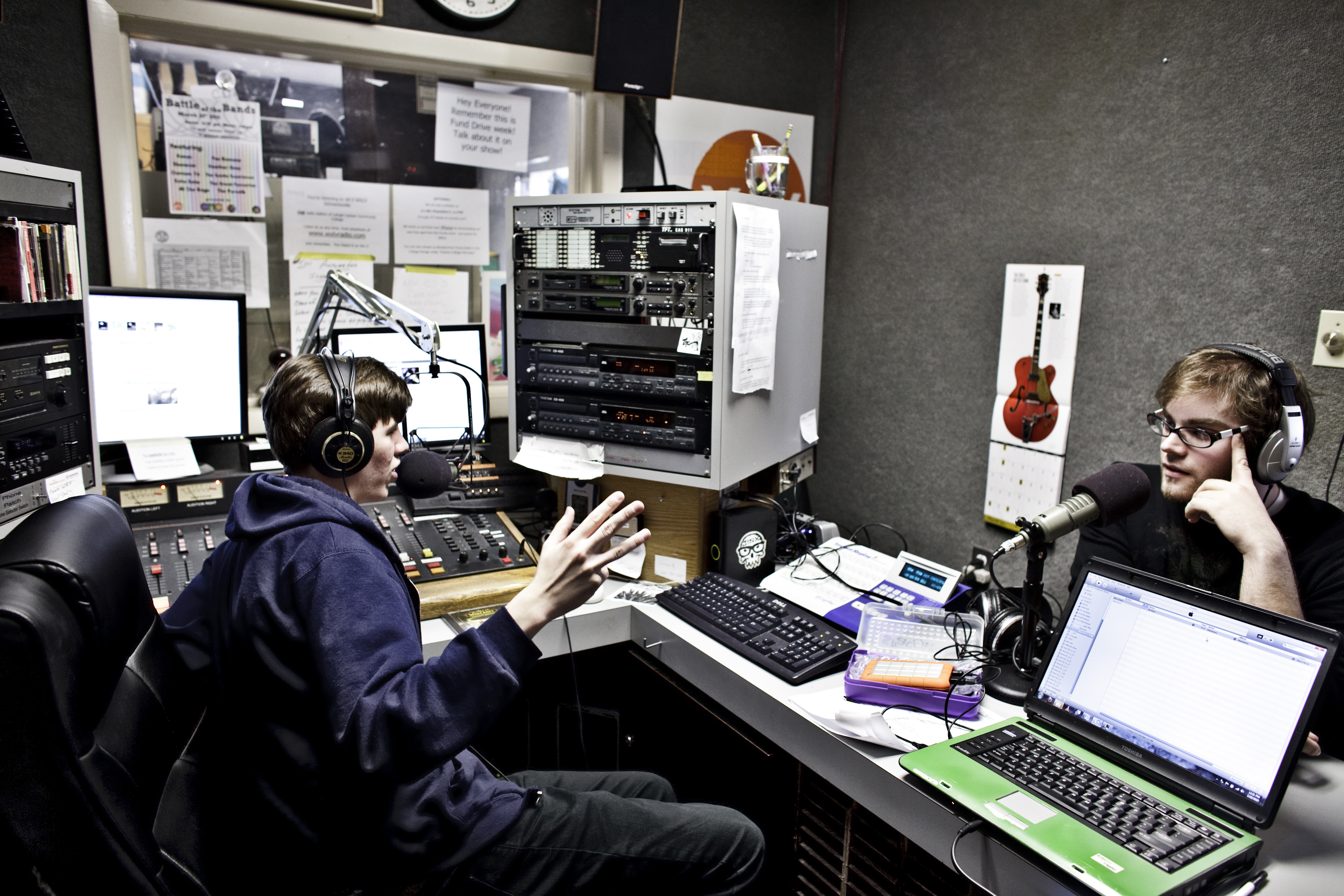 Lehigh Carbon Community College's Radio WXLV The-X